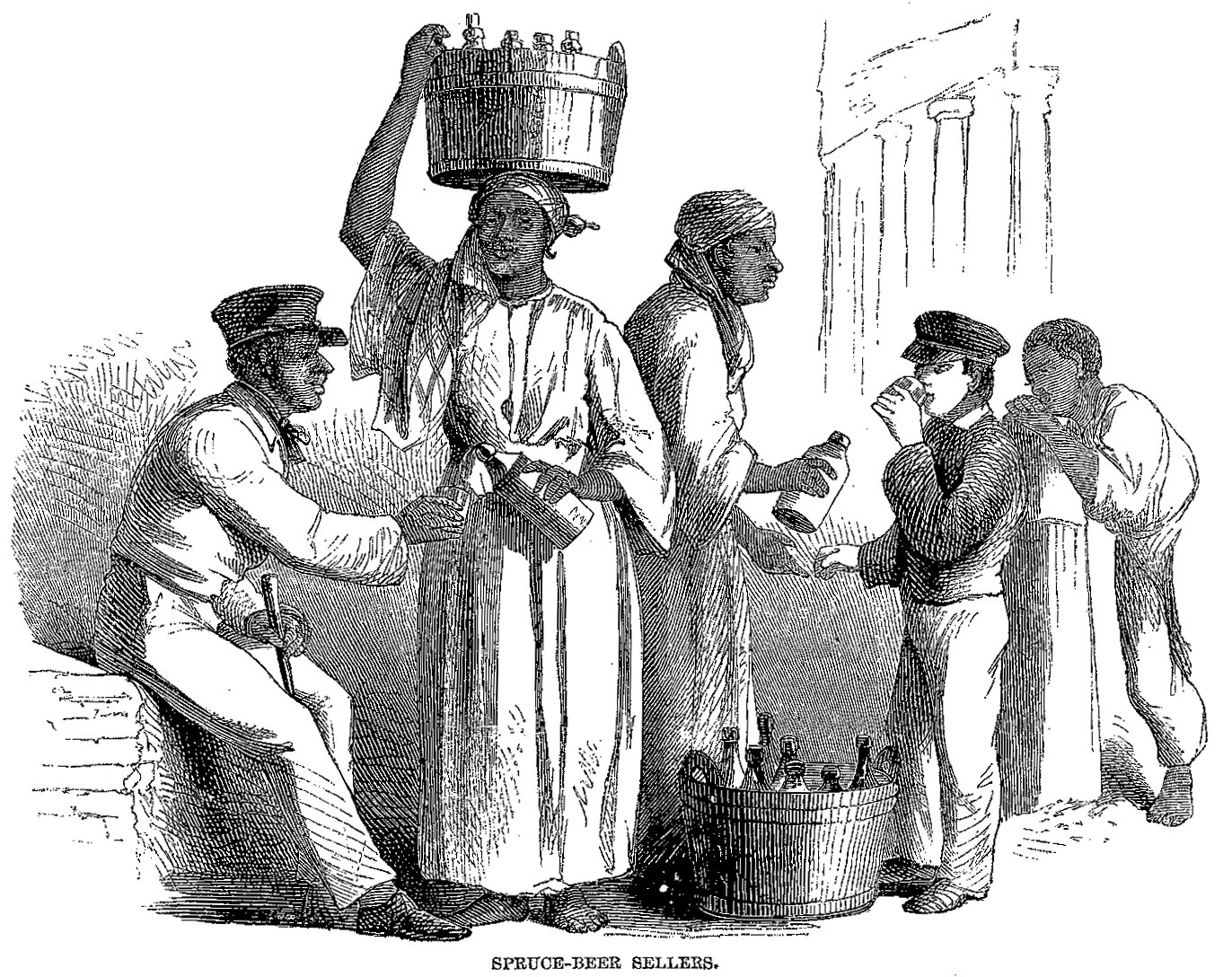 "Spruce-Beer Sellers", illustration of article "Cast-away in Jamaica" by W.E. Sewell, in Harper's Monthly Magazine, January 1861.